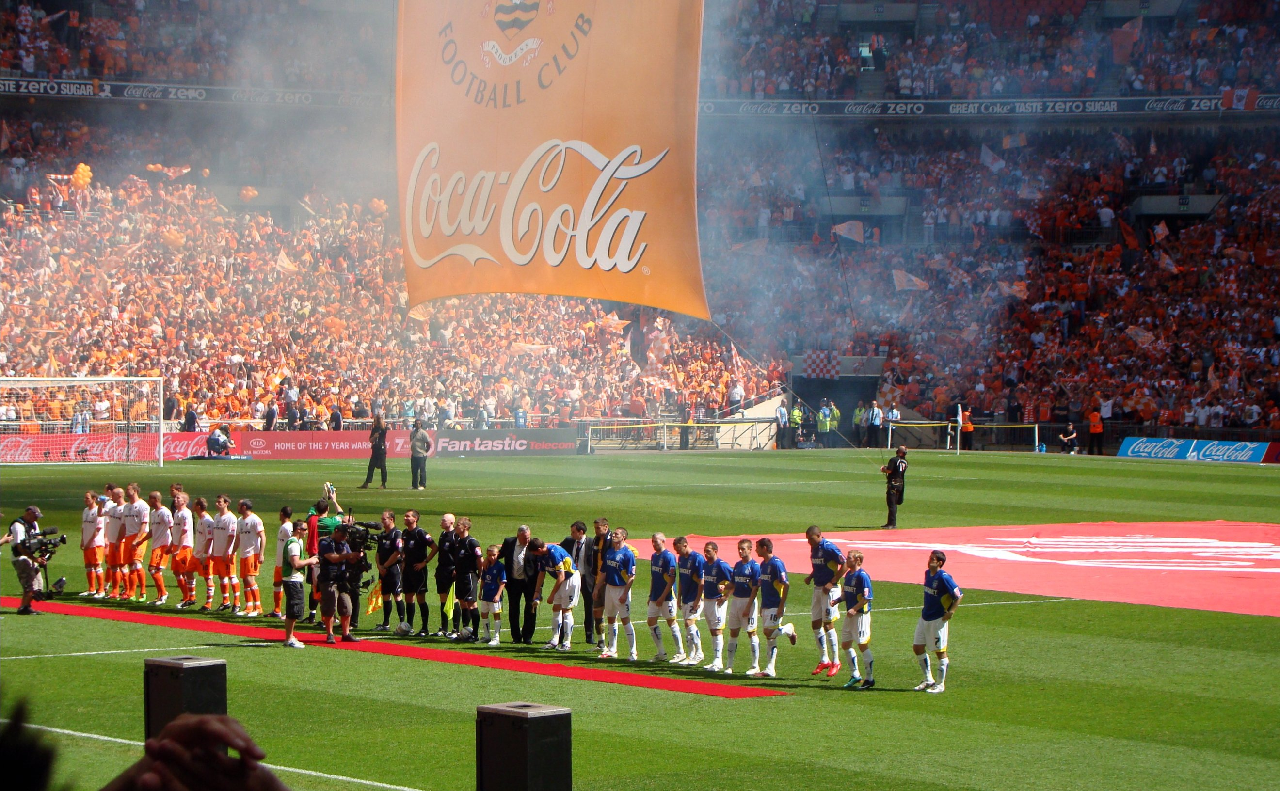 22/05/10 Cardiff V Blackpool, Championship Final, Wembley, England